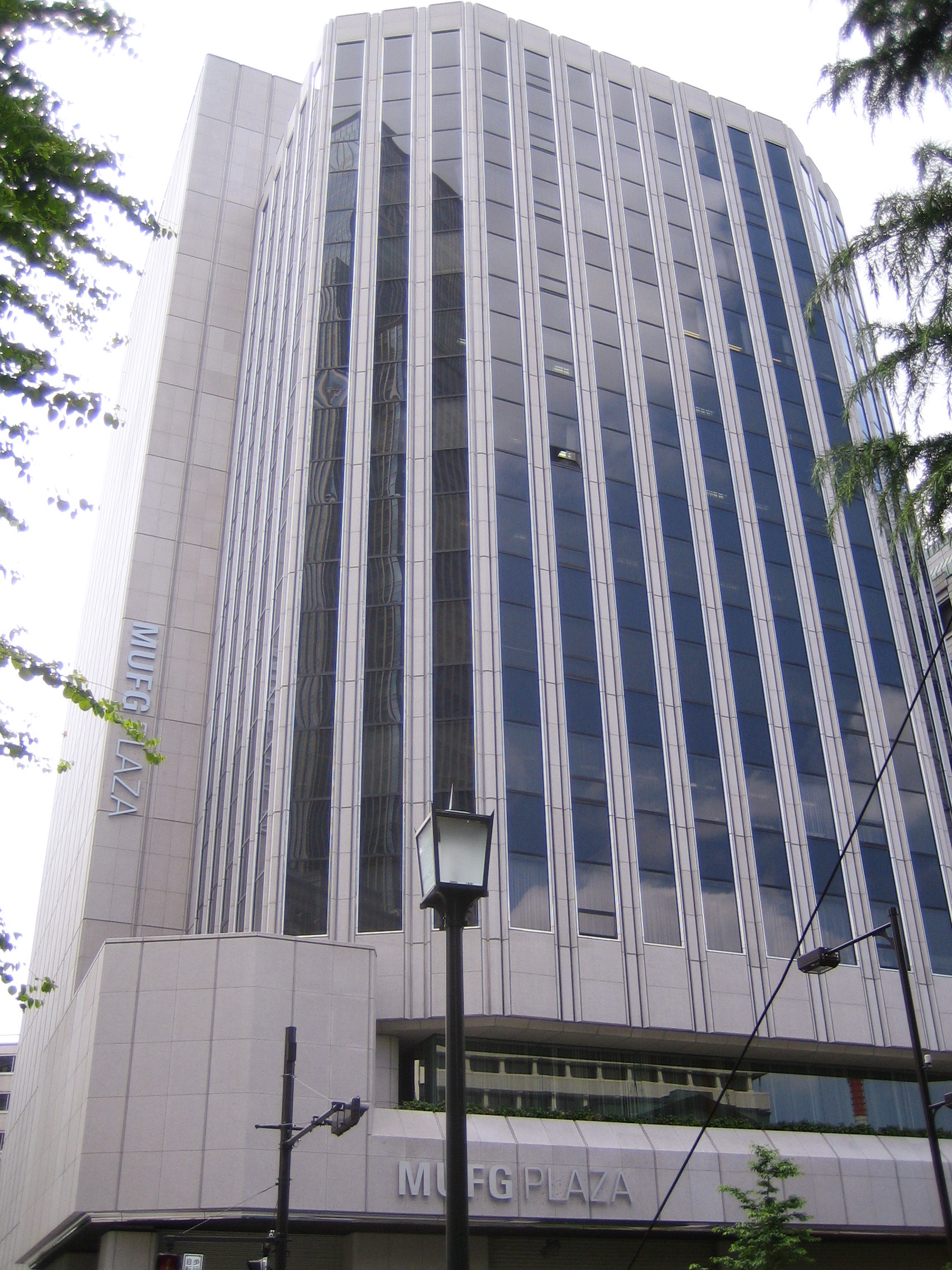 Nihonbashi branch of the Bank of Tokyo-Mitsubishi UFJ (三菱東京UFJ銀行), in Chuo, Tokyo, Tokyo, Japan